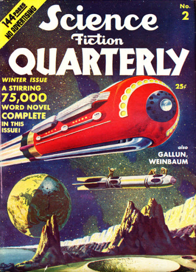 Cover of Science Fiction Quarterly, Winter 1940